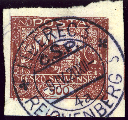 Issue 1919 of Czechoslovakia, 500 heller, bilingual cancelled LIBEREC 3 - REICHENBERG 3 on 9 Apr 1920.